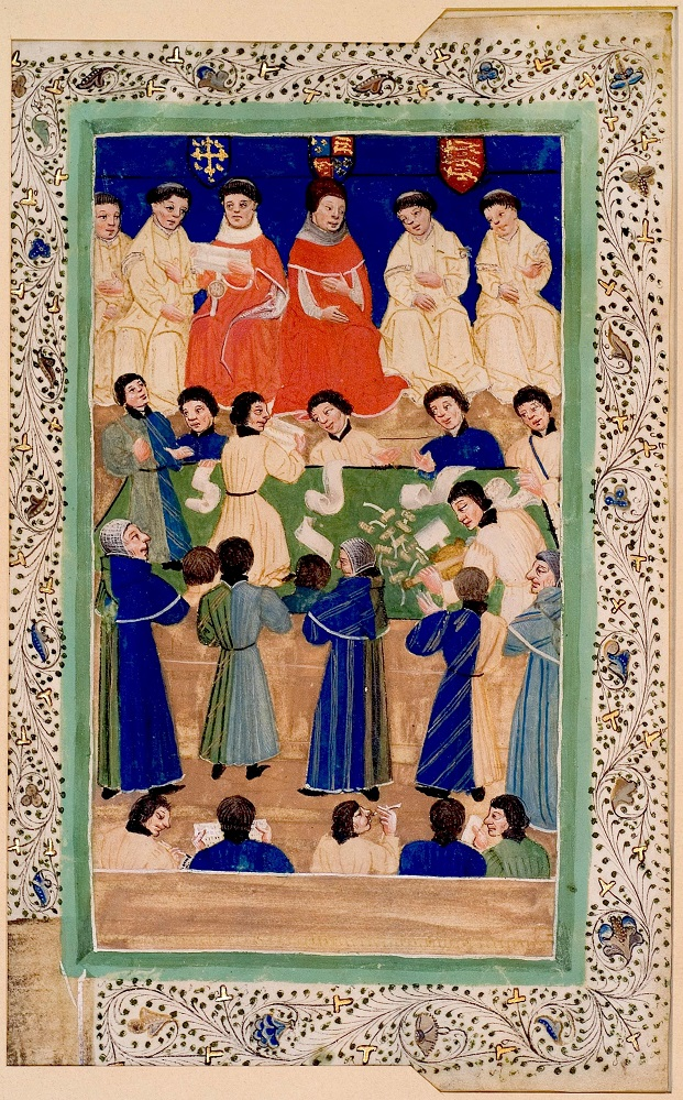 Court of Chancery, illuminated manuscript